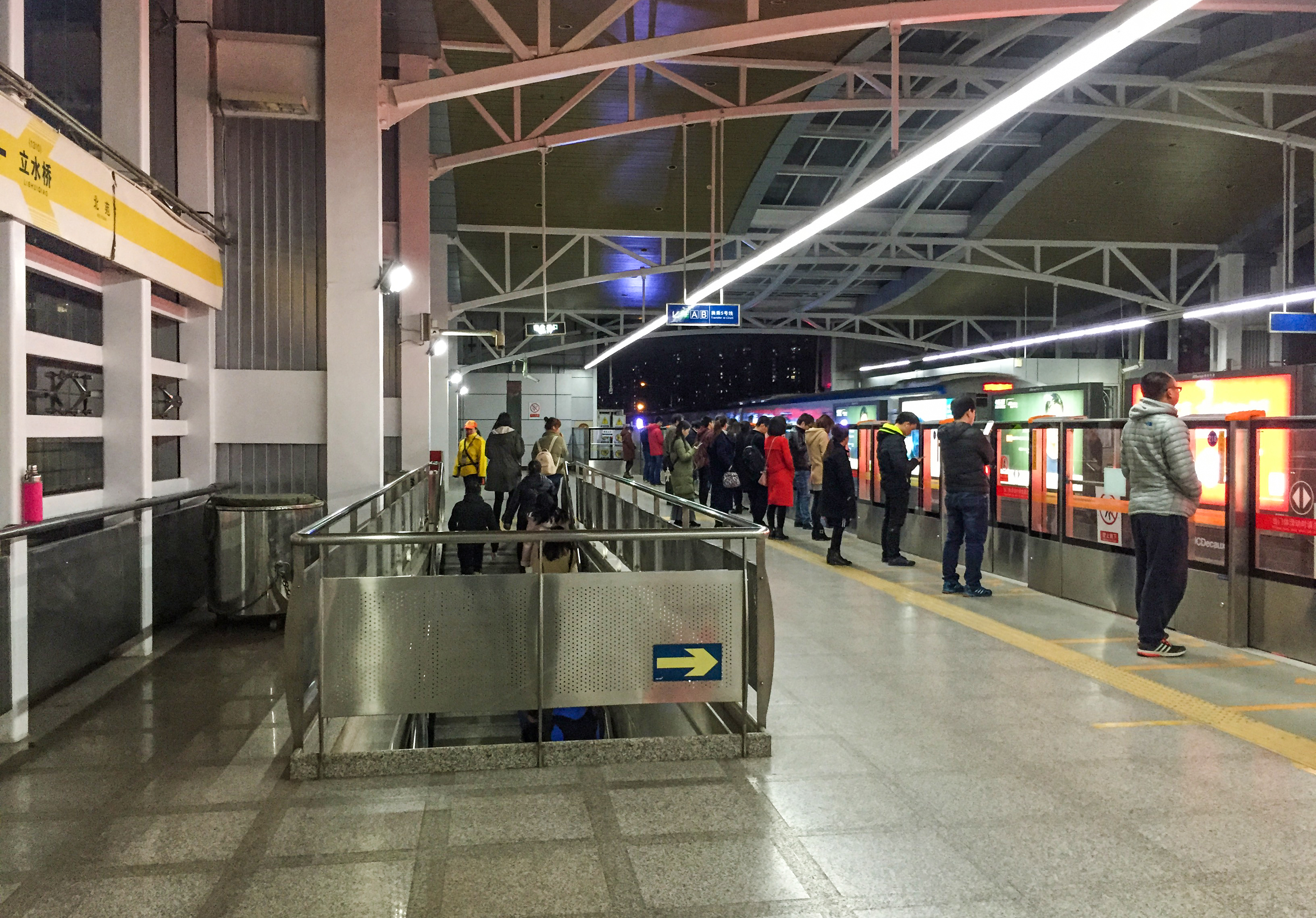 In the evening rush.